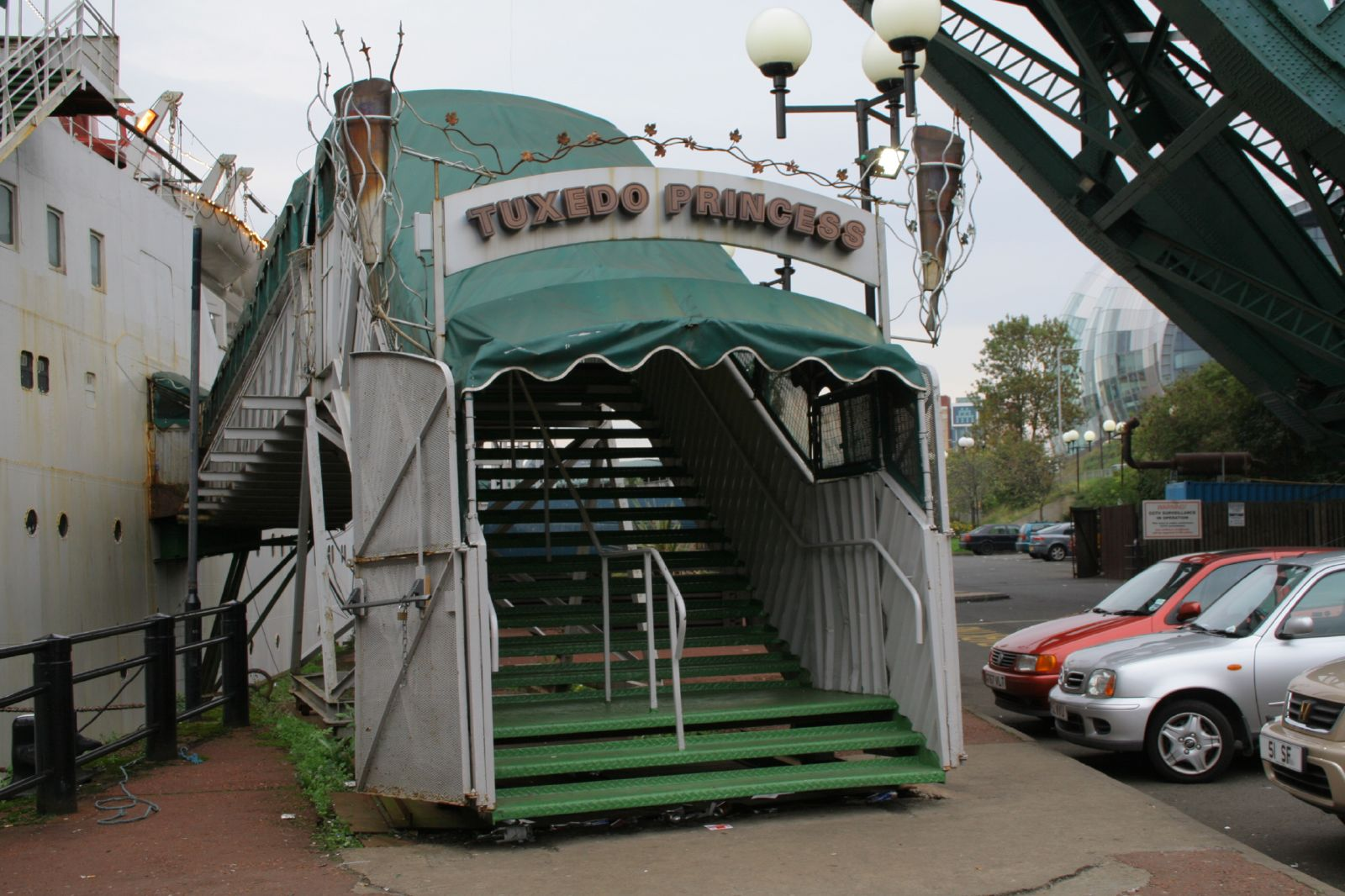 The entrance to the Tuxedo Princess (the former car ferry TSS Caledonian Princess), a floating nightclub permanently moored on the Gateshead side of the River Tyne in Newcastle upon Tyne, England, underneath the Tyne Bridge (whose girders can be seen in the upper right).Gangway